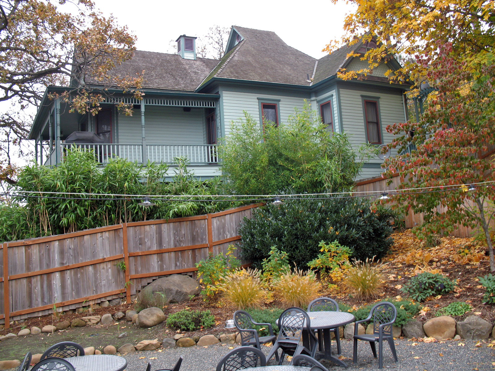 National Register of Historic Places listings in Hood River County, Oregon. Roe-Parker House, 416 W State St, Hood River, OR (relocated to 110 Sherman St.). Photographed October 28, 2009 from the patio of Horsefeathers Restaurant (115 State St.).